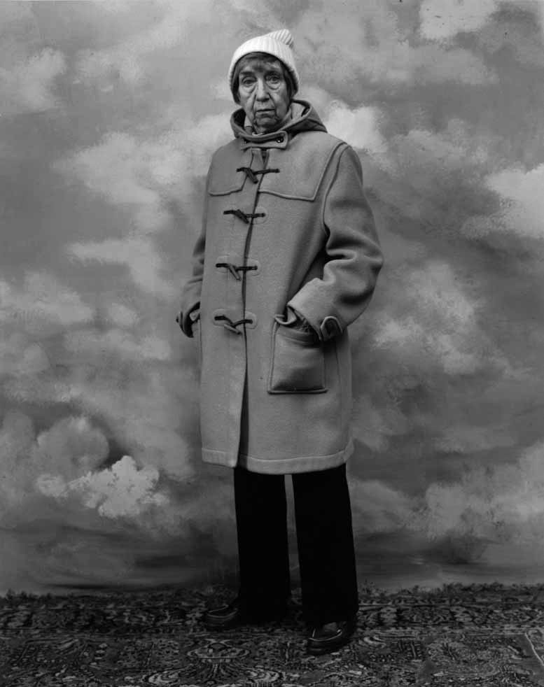 This photograph of Berenice Abbott was taken by Hank O'Neal at his Downtown Sound Studio in New York City, 18 November 1979